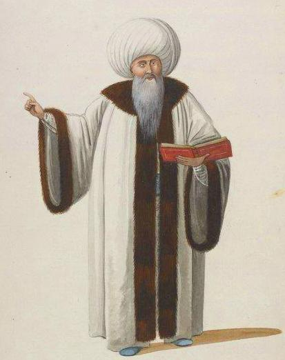 Painting of a Mufti